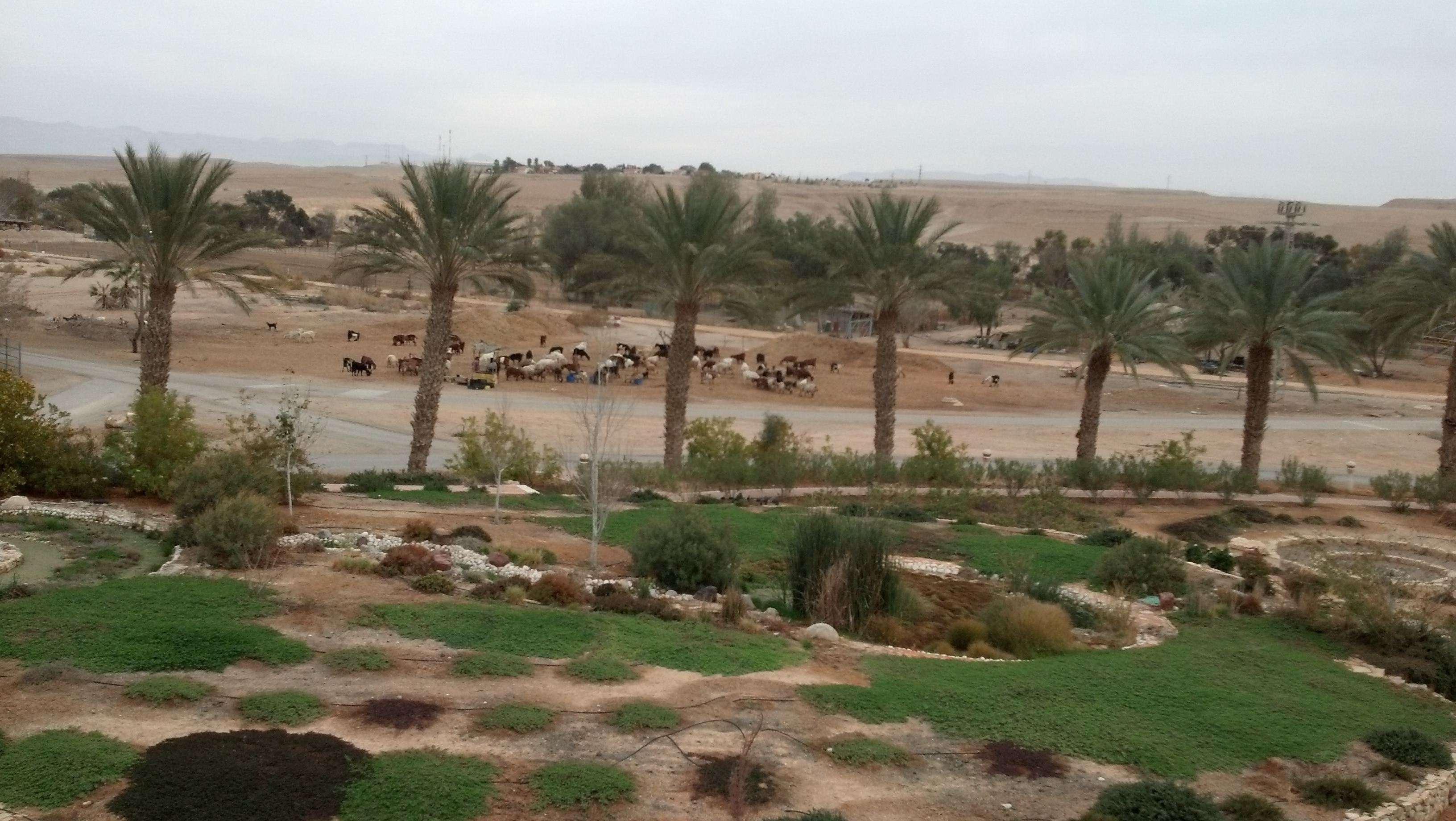 Sight at Neot Semadar: palm trees and goats